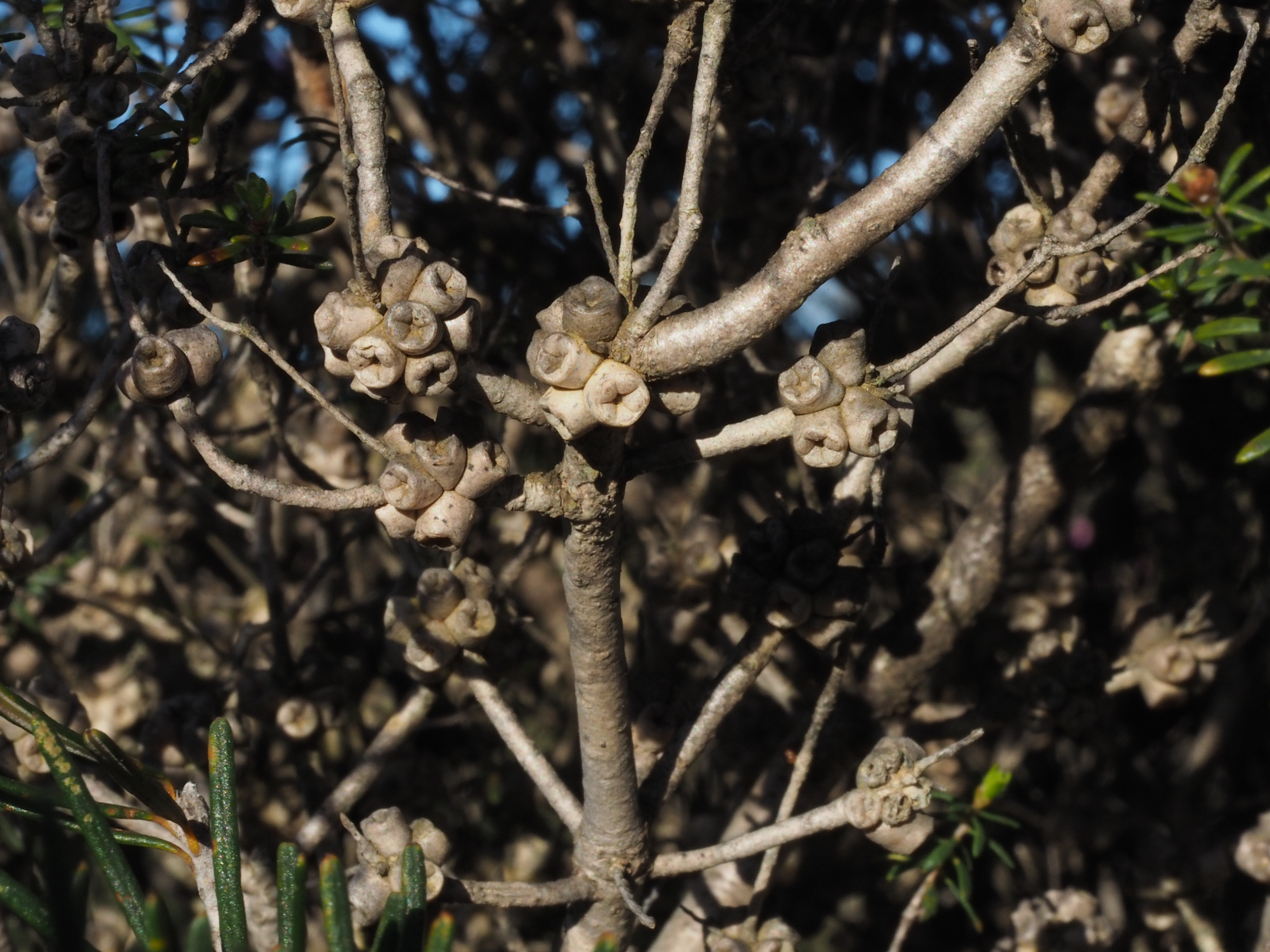 Melaleuca seriata growing near Badgingarra